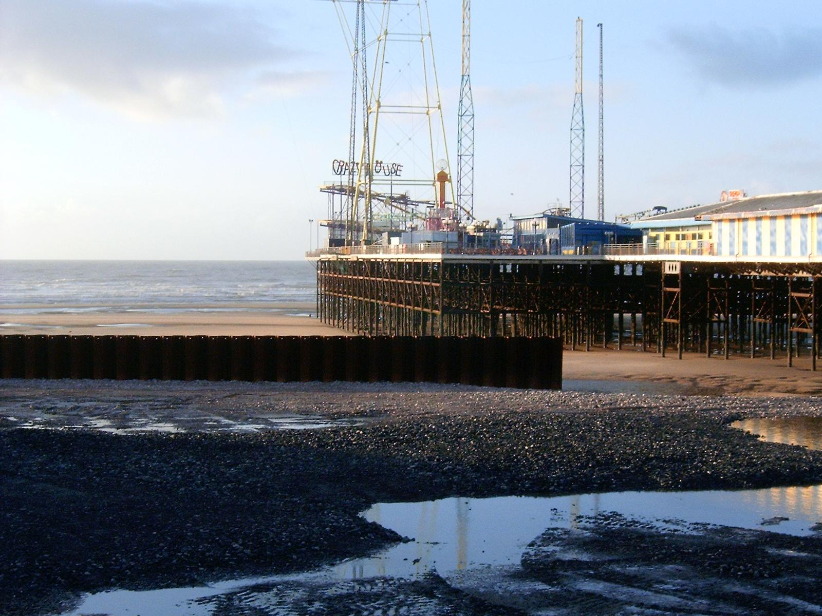 Blackpool's South Pier (and work on the new sea wall in left foreground)